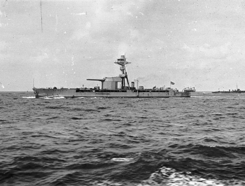 Royal Navy monitor HMS Marshal Soult